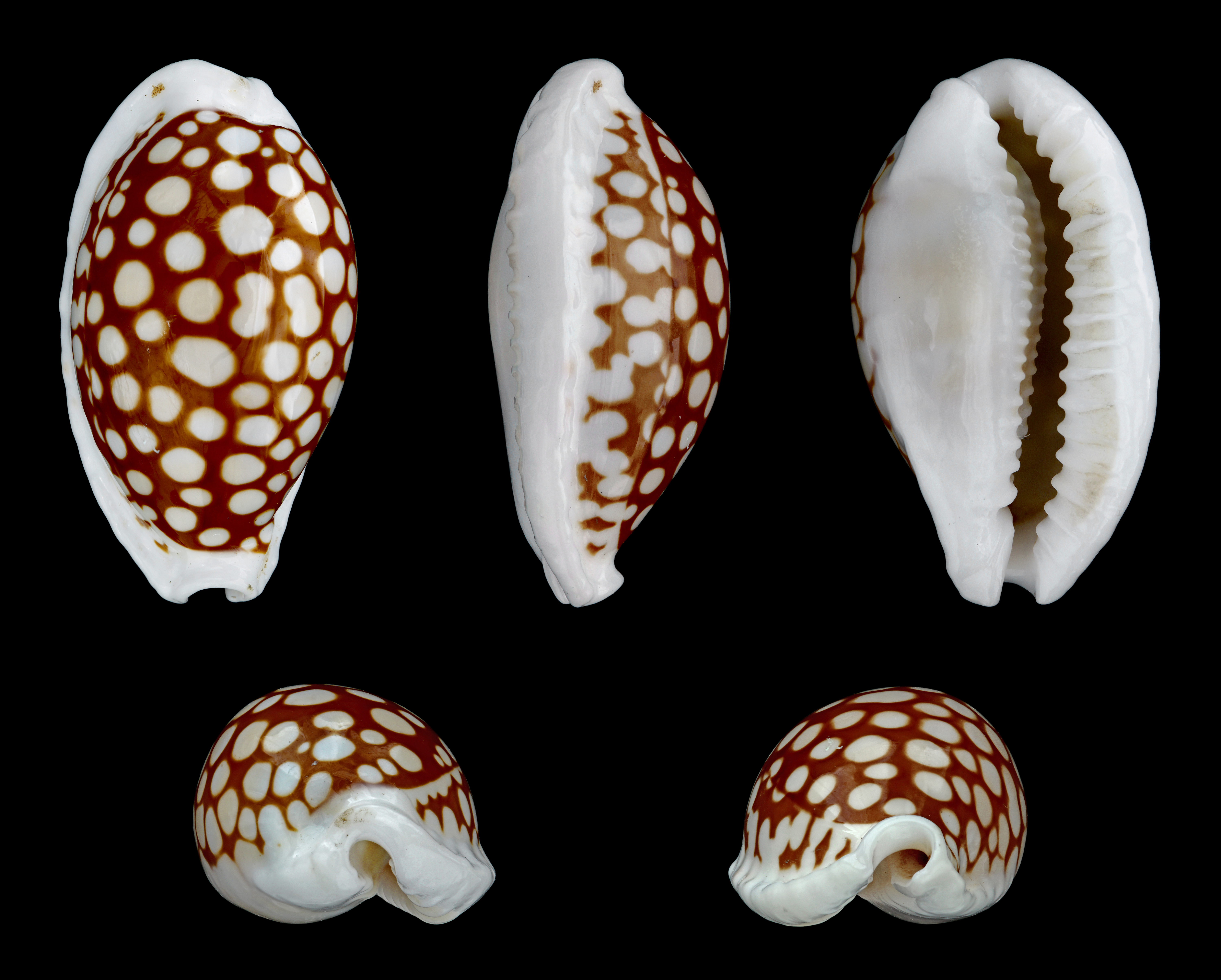 Sieve Cowry; Length 2.9 cm; Originating from the Indo-Pacific; Shell of own collection, therefore not geocoded. Dorsal, lateral (right side), ventral, back, and front view.